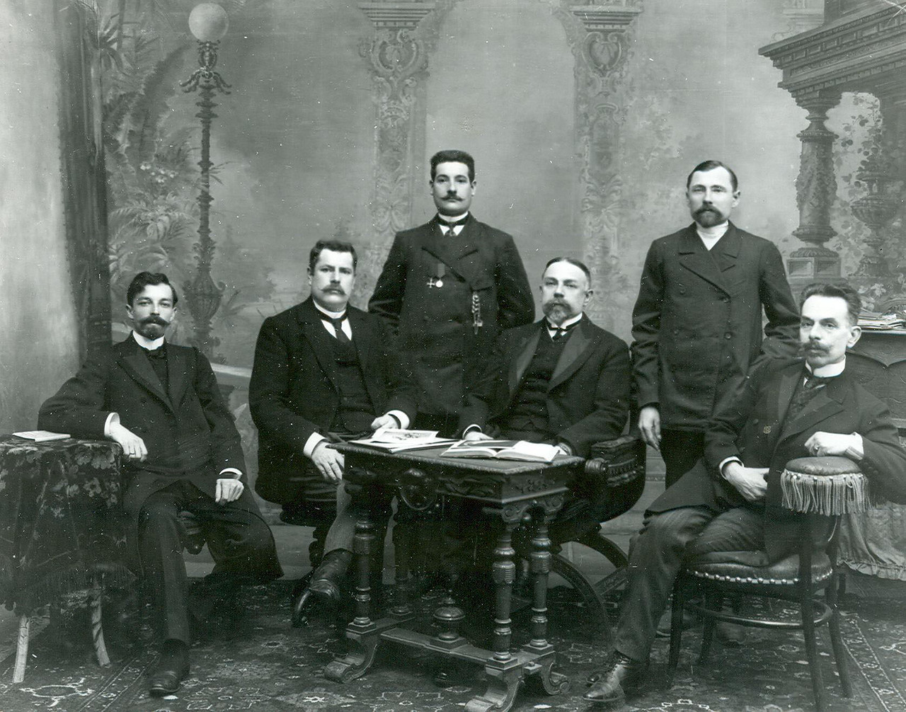 Group of members of the second Russian State Duma from Vitebsk Governorate, 1907.